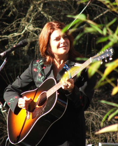 Rosanne Cash at the Hardly Strictly Bluegrass Festival 2005. Golden Gate Park - San Francisco, CA. Photo by Ron Baker.